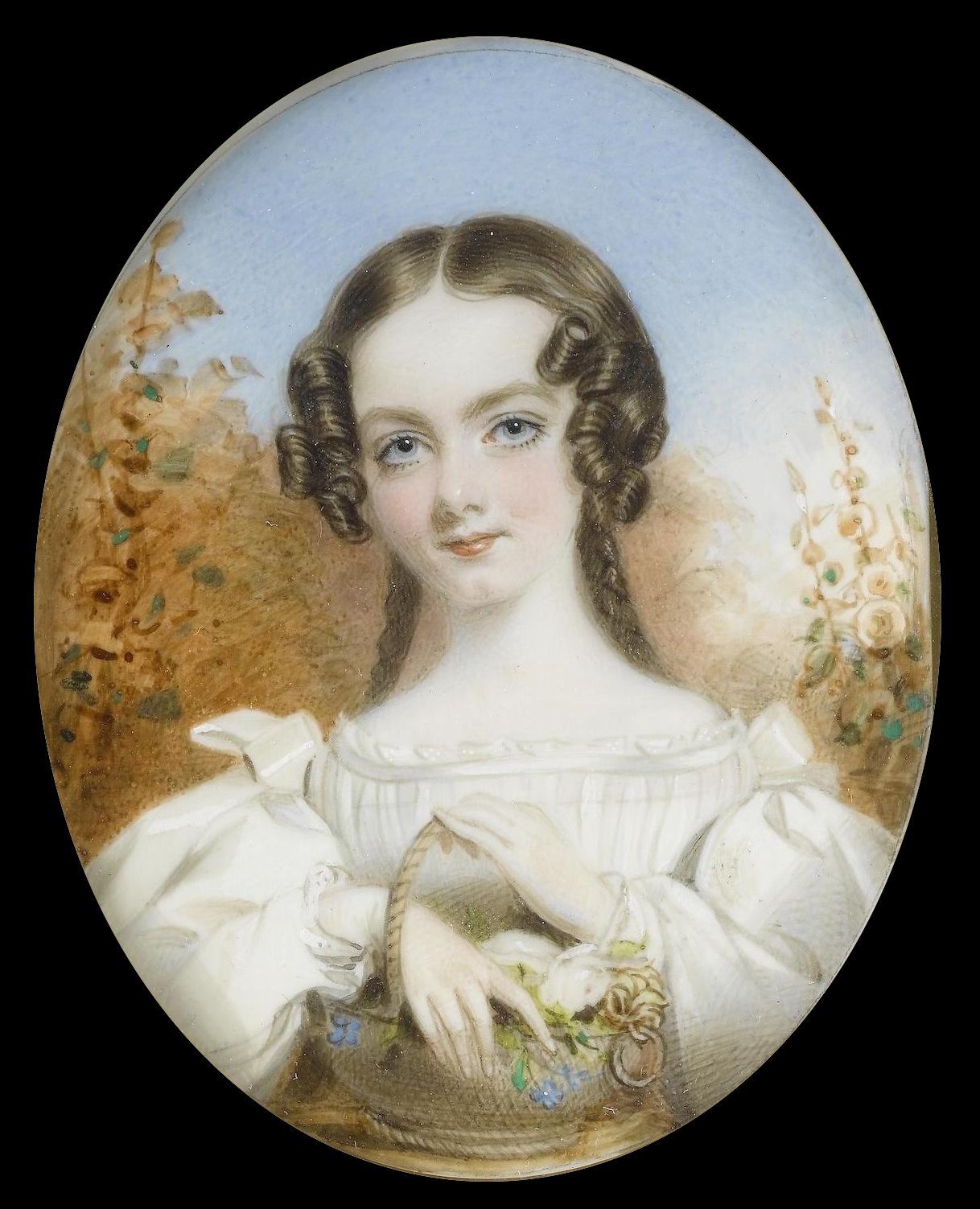 Charles Foot Tayler - Eleanor Ann Ram, later Mrs Archibald Campbell. Per Bonhams [1]: "Signed on the reverse and dated Painted by C. Foot Tayler,/ 8 Oxford Row, Bath/ 1837, rectangular ormolu frame with shell, scrolling foliate and floral motifs, inscribed on the reverse Eleanor Anne (née Ram)/ Wife of Archibald James Campbell/ born ..../ died ....1879./ painted by./ Taylor/ of/ Bath. See also [2].